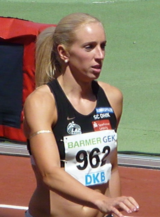 Cindy Roleder bei den Deutschen Meisterschaften 2015 in Nürnberg